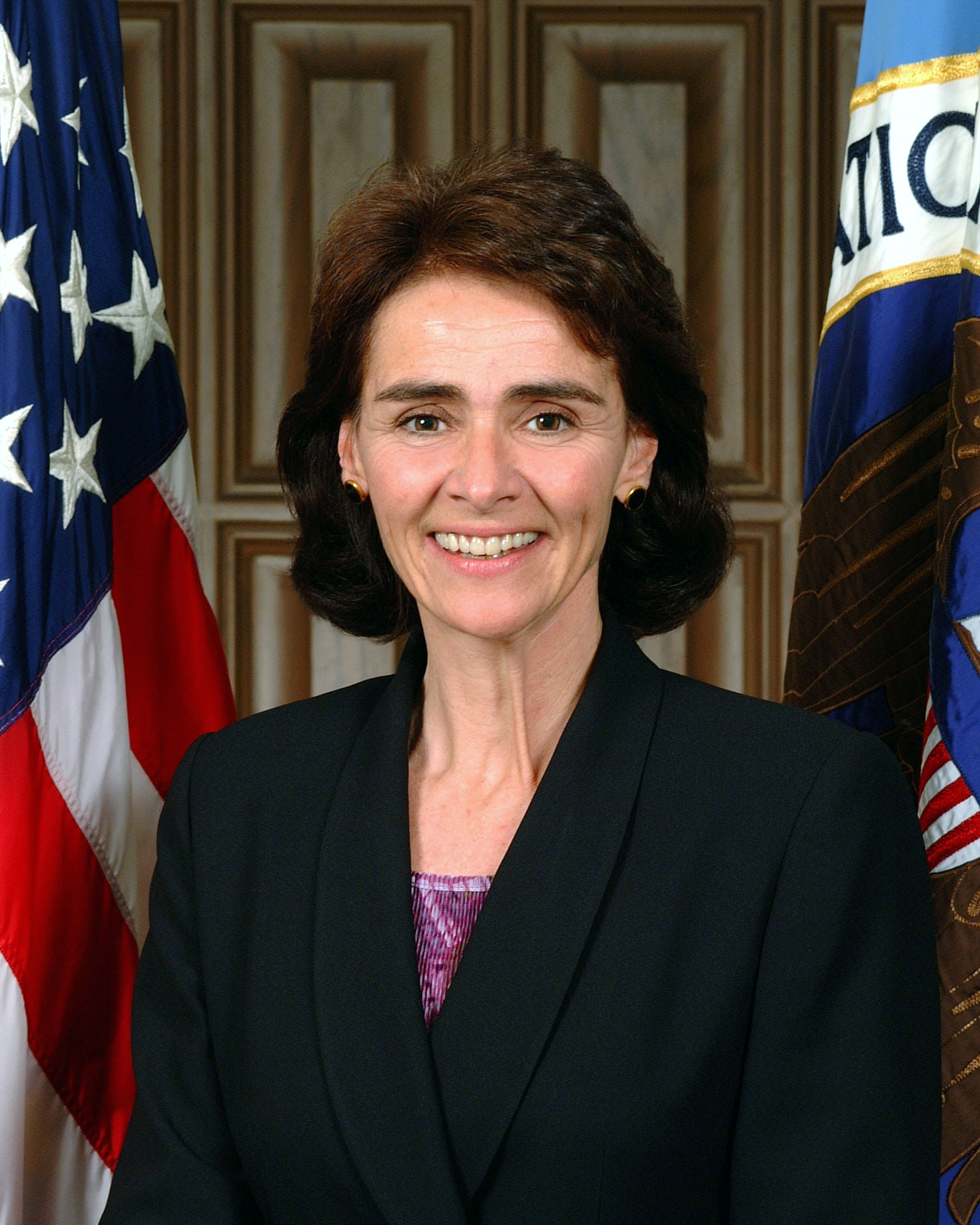 Portrait of a former public figure.